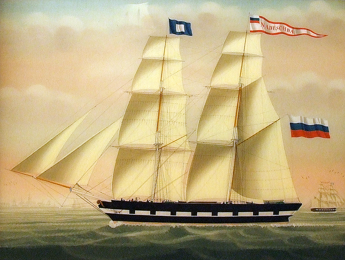 The Brig Nadeschda was built in 1841 in Raahe, Finland